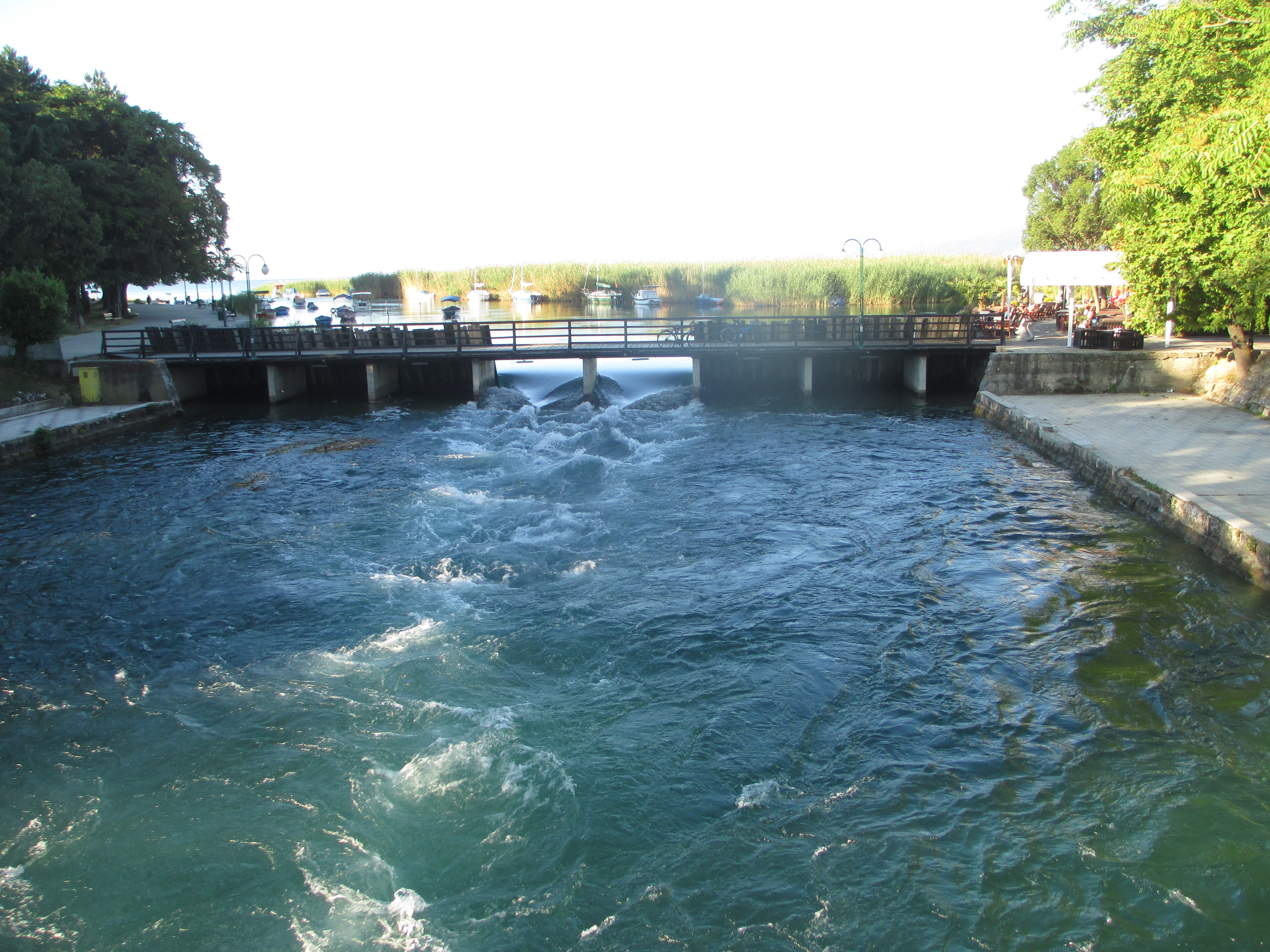 Bridge of the poets in Struga